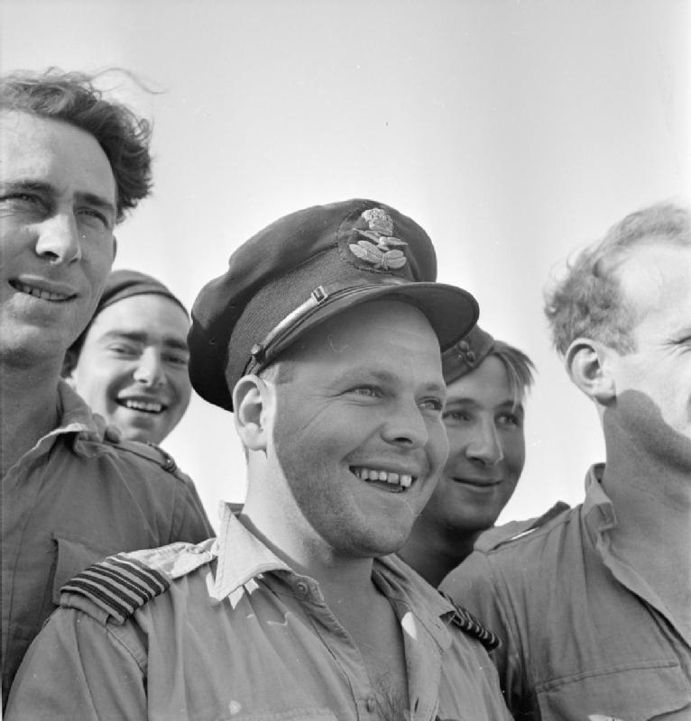 Royal Air Force- Operations in the Middle East and North Africa, 1940-1943. Squadron-Leader R H M Gibbes, Officer Commanding No. 3 Squadron RAAF, at LG 91, Egypt, shortly after being awarded the DFC for his leadership of the unit in the Western Desert. After initial service with Nos. 23 and 450 Squadrons RAAF, Gibbes transferred to No.3 Squadron RAAF intime to see action during the Syrian Campaign in June 1941. He was rapidly promoted during his subsequent service in the Western Desert and took command of the Squadron in February 1942. Despite being shot down twice he continued to lead 3 Squadron through the Battle of Alamein and the Tunisian campaign before his tour finished in April 1943 with a victory score of 12 enemy aircraft shot down. Gibbes then returned to Australia to lead No. 80 Wing RAAF in the South-West Pacific from October 1944 to April 1945, and to serve thereafter with the Air Board in Melbourne until the end of the War.